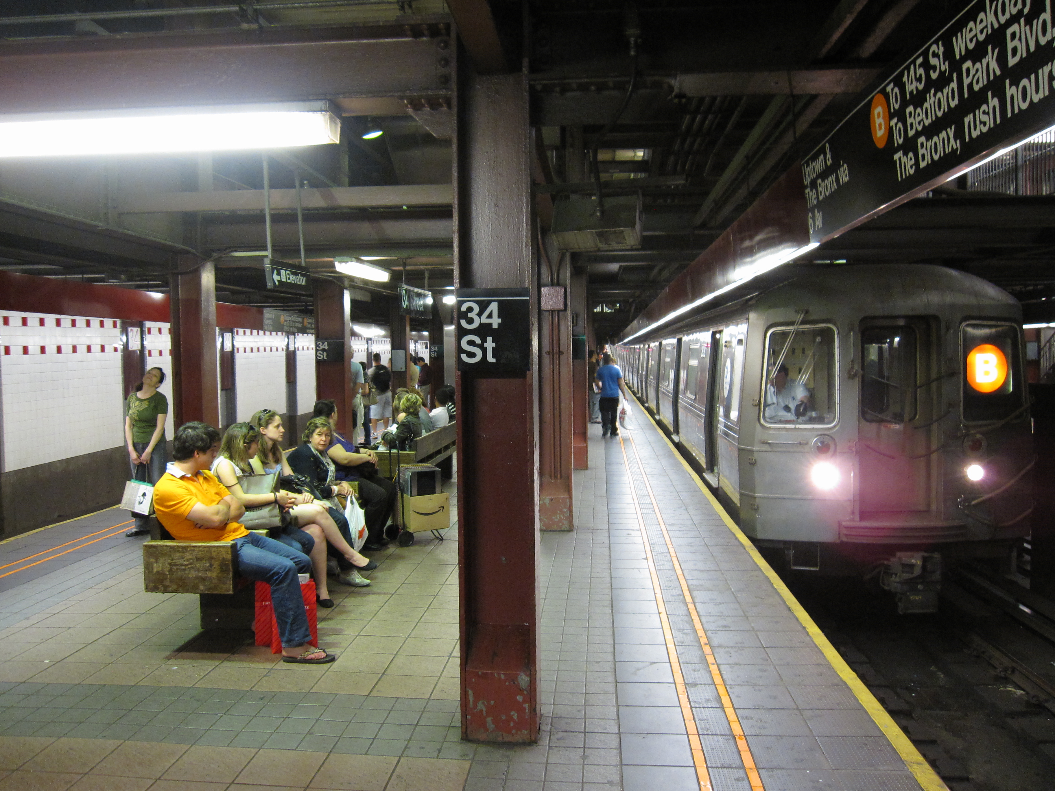 34th Street â€“ Herald Square (IND Sixth Avenue Line)